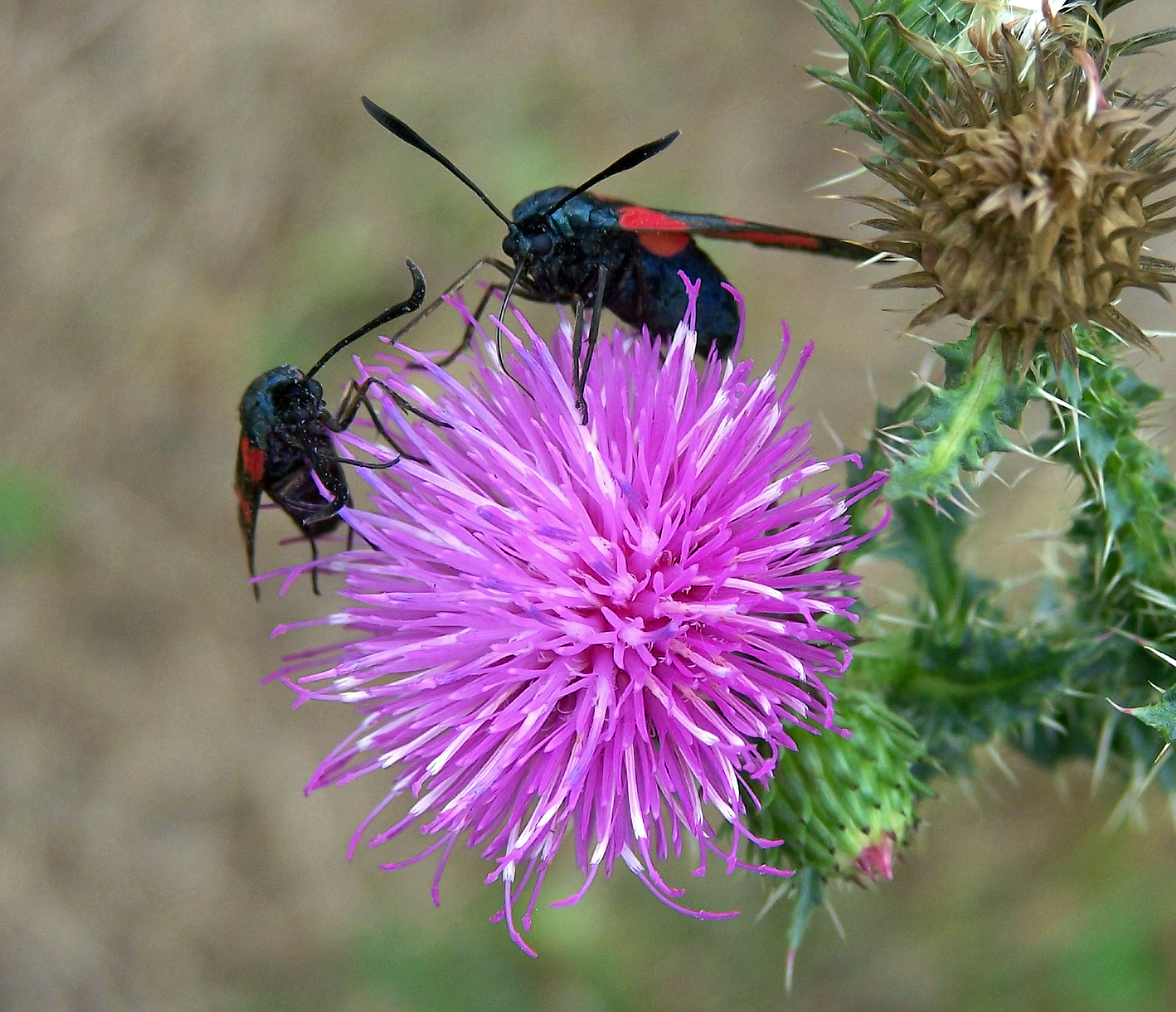 Six-spot burnets are sucking nectar from receptacle of a spiny plumless thistle. Species: Zygaena filipendulae LINNAEUS, 1758 (six-spot burnet) on Carduus acanthoides L. ssp. acanthoides (spiny plumeless thistle)